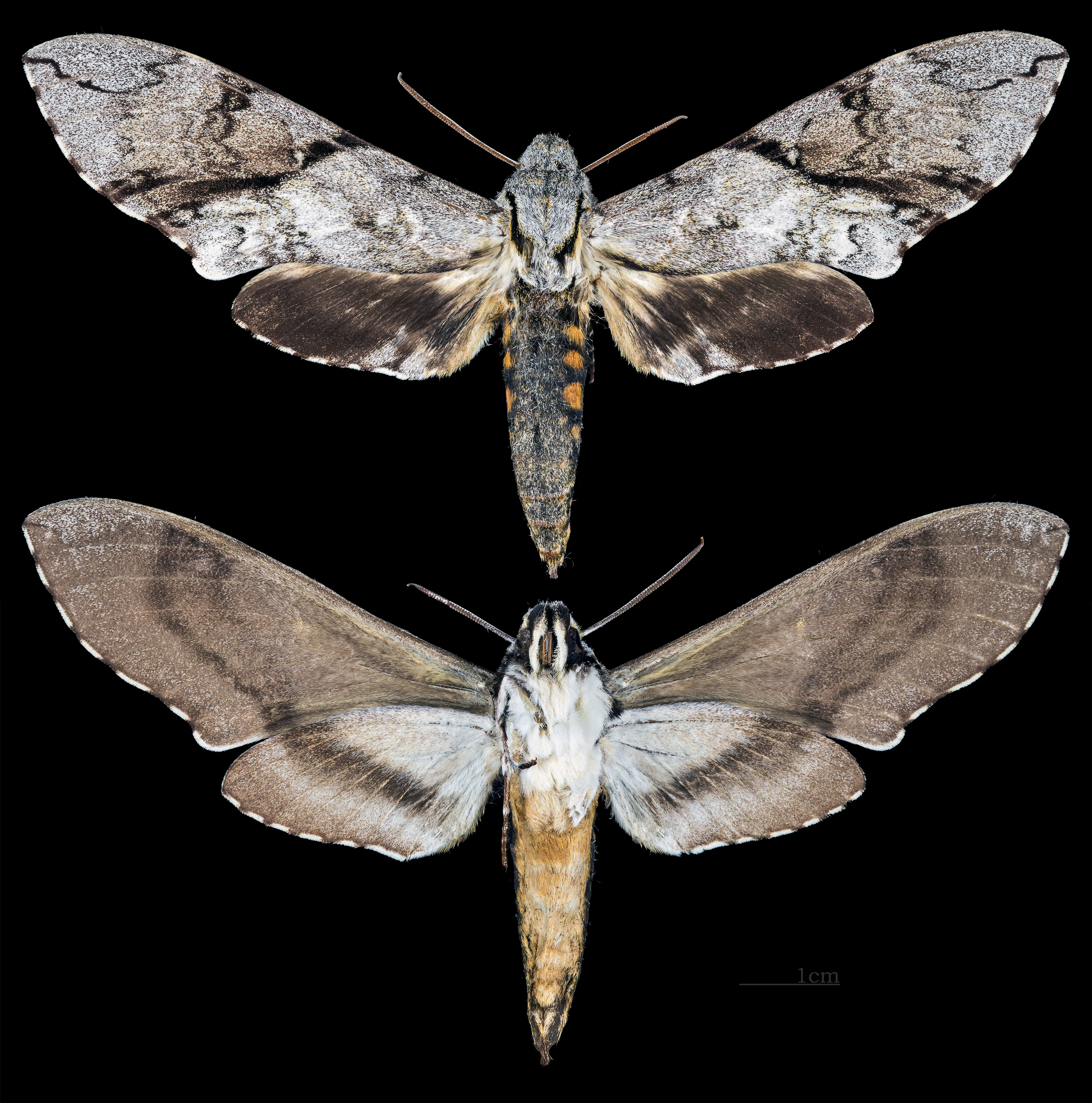 Manduca incisa - Two views of same specimen Collection of the Mathematician Laurent Schwartz